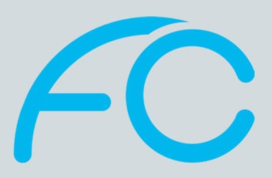 Facultad de Ciencias